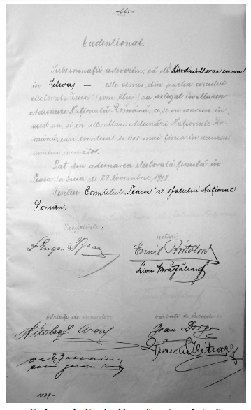 Mandate of Nicodim Morar, deputy in the Great National Assembly from Alba Iulia, on behalf of the Electoral district of Teaca - Romania, 1918Română: Credenționalul lui Nicodim Morar, deputat în Marea Adunare Națională de la Alba Iulia, din partea Cercului electoral Teaca, 1918